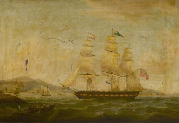 ‘Hibernia’ Beating off the Privateer ‘Comet’, 10 January 1814: Returning to Port